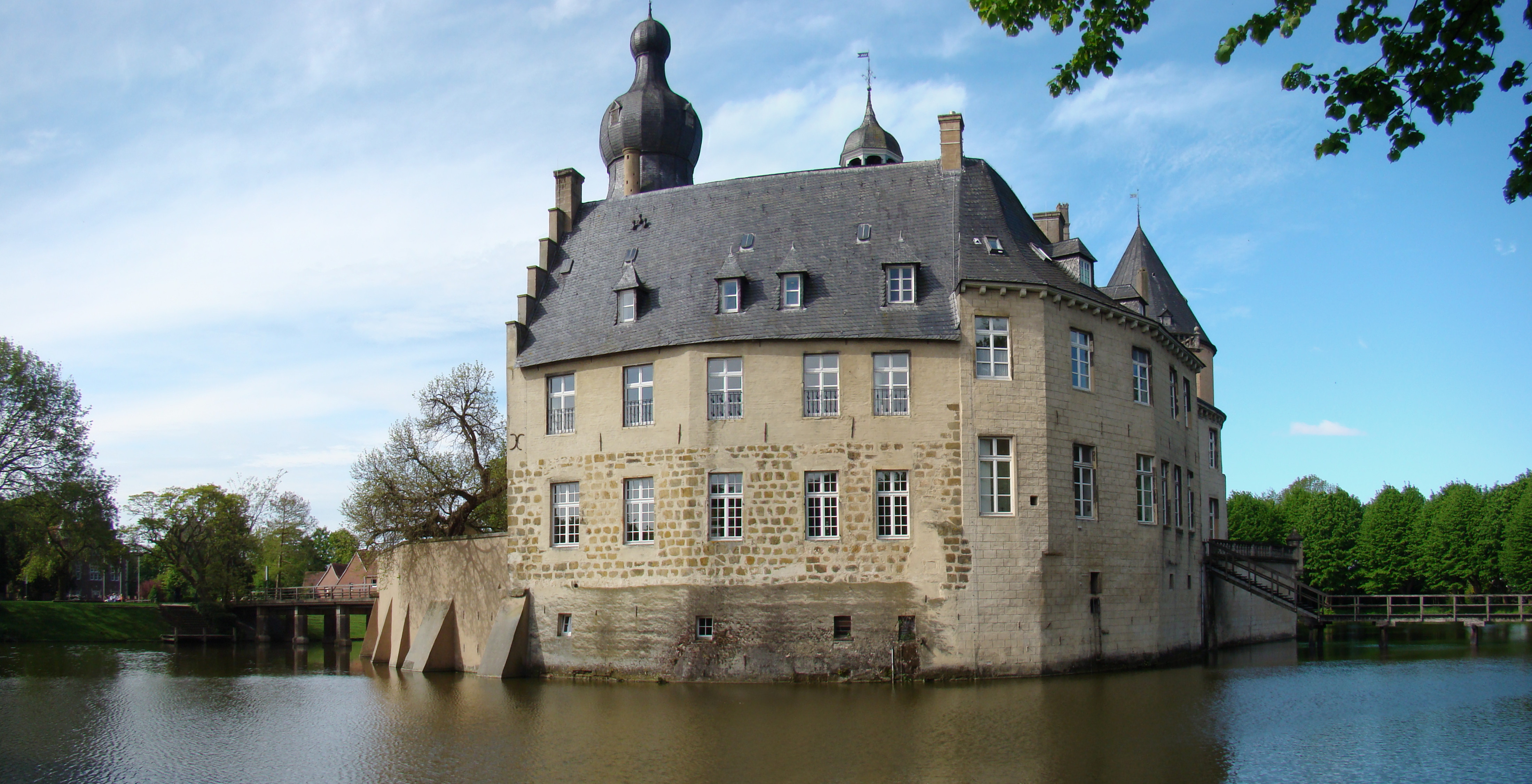 Castle Gemen (Germany)